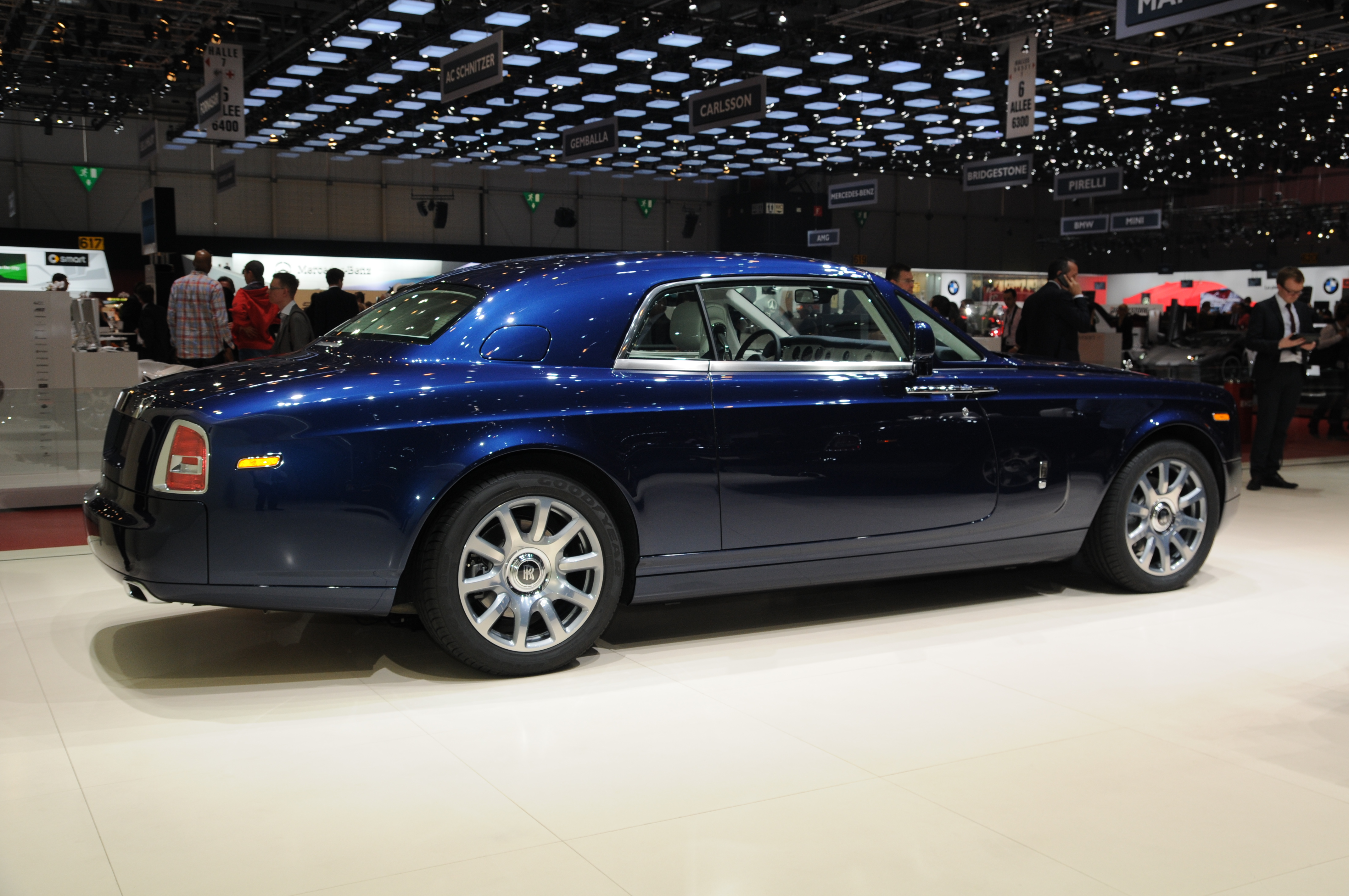 Geneva Motor Show 2013 (photos taken on the first press day)